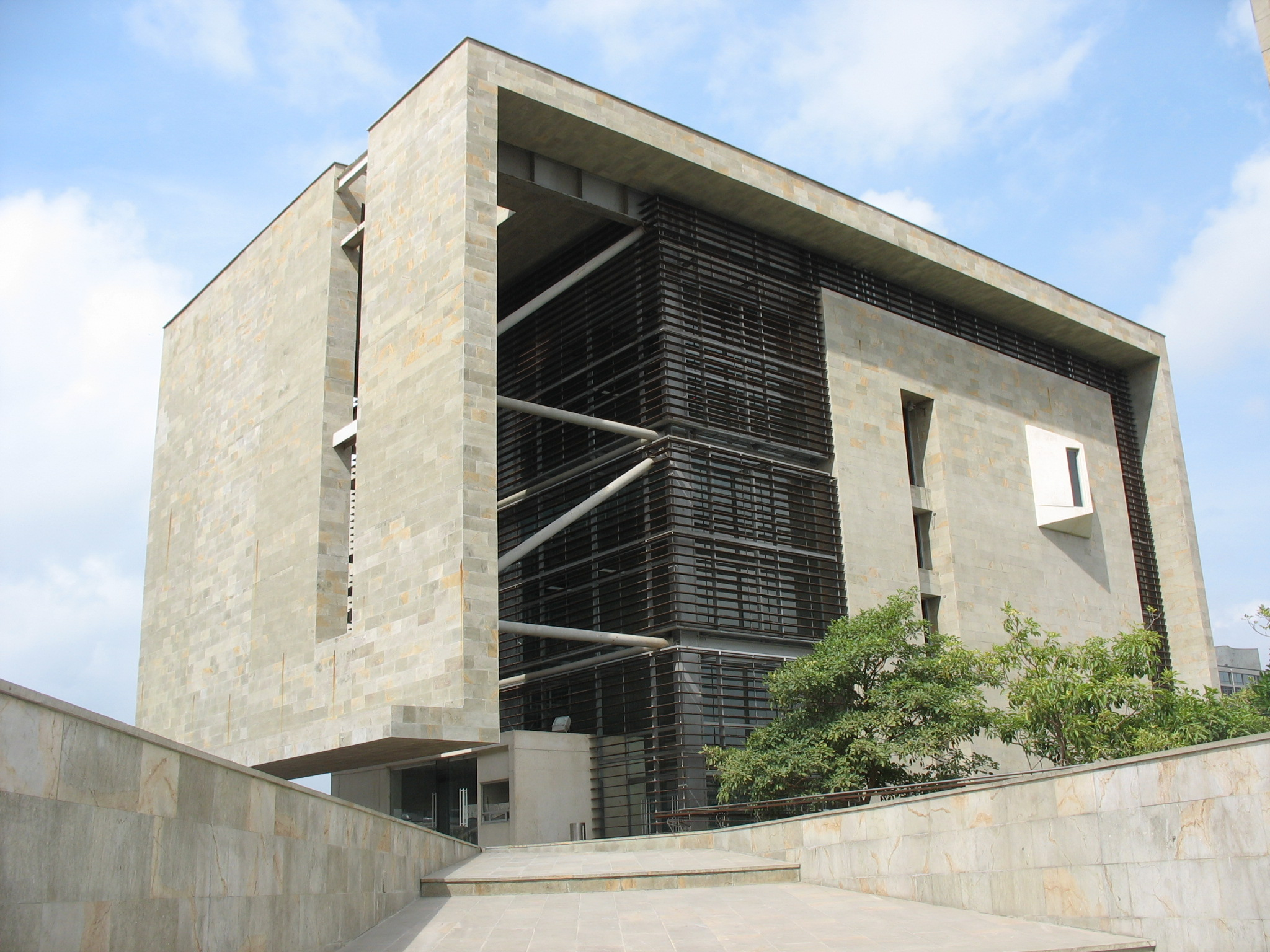 Barranquilla - Caribbean Cultural Park